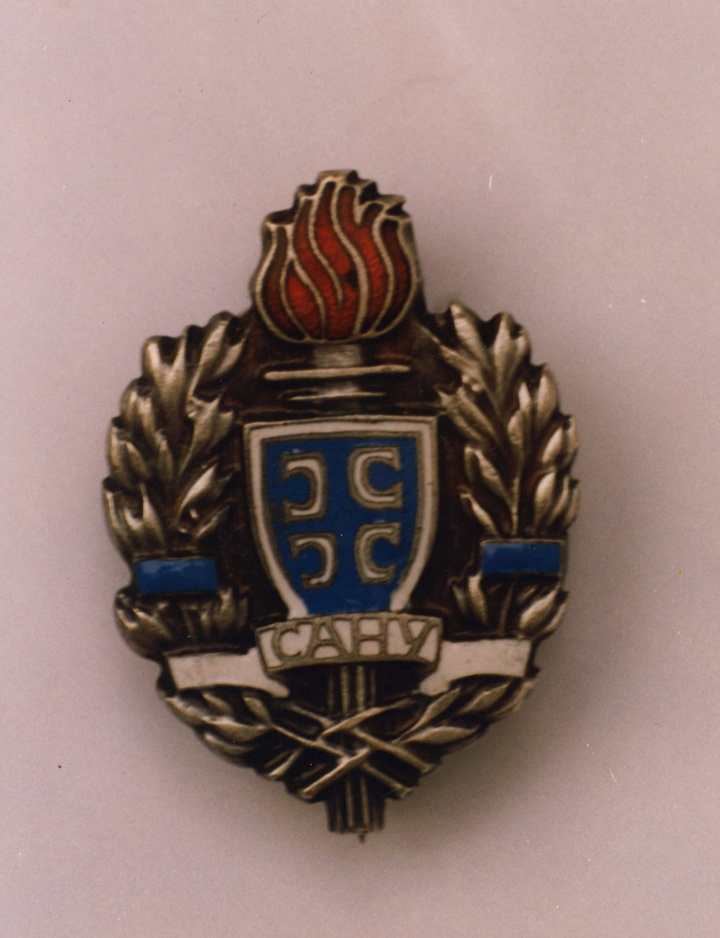 The coat of arms of the Serbian Academy of Sciences and Arts